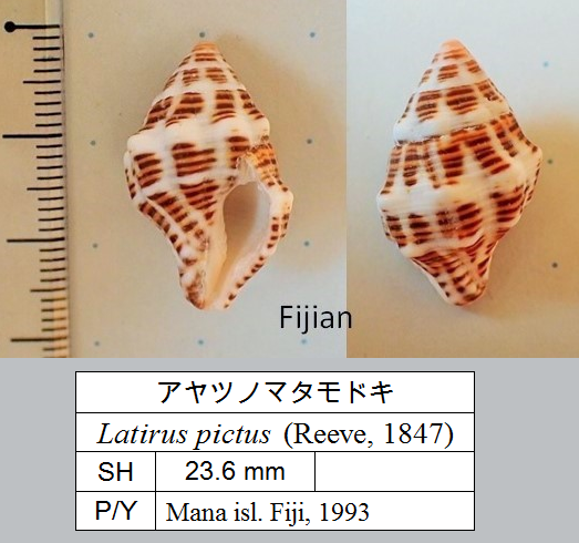 This shell seems not L. belcheri but L. pictus. This was found at Mana isl., Fiji. Shell height is 23.6 mm.